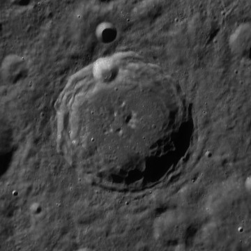 Schjellerup crater, on the moon. Lunar Reconnaissance Orbiter North Polar mosaic.